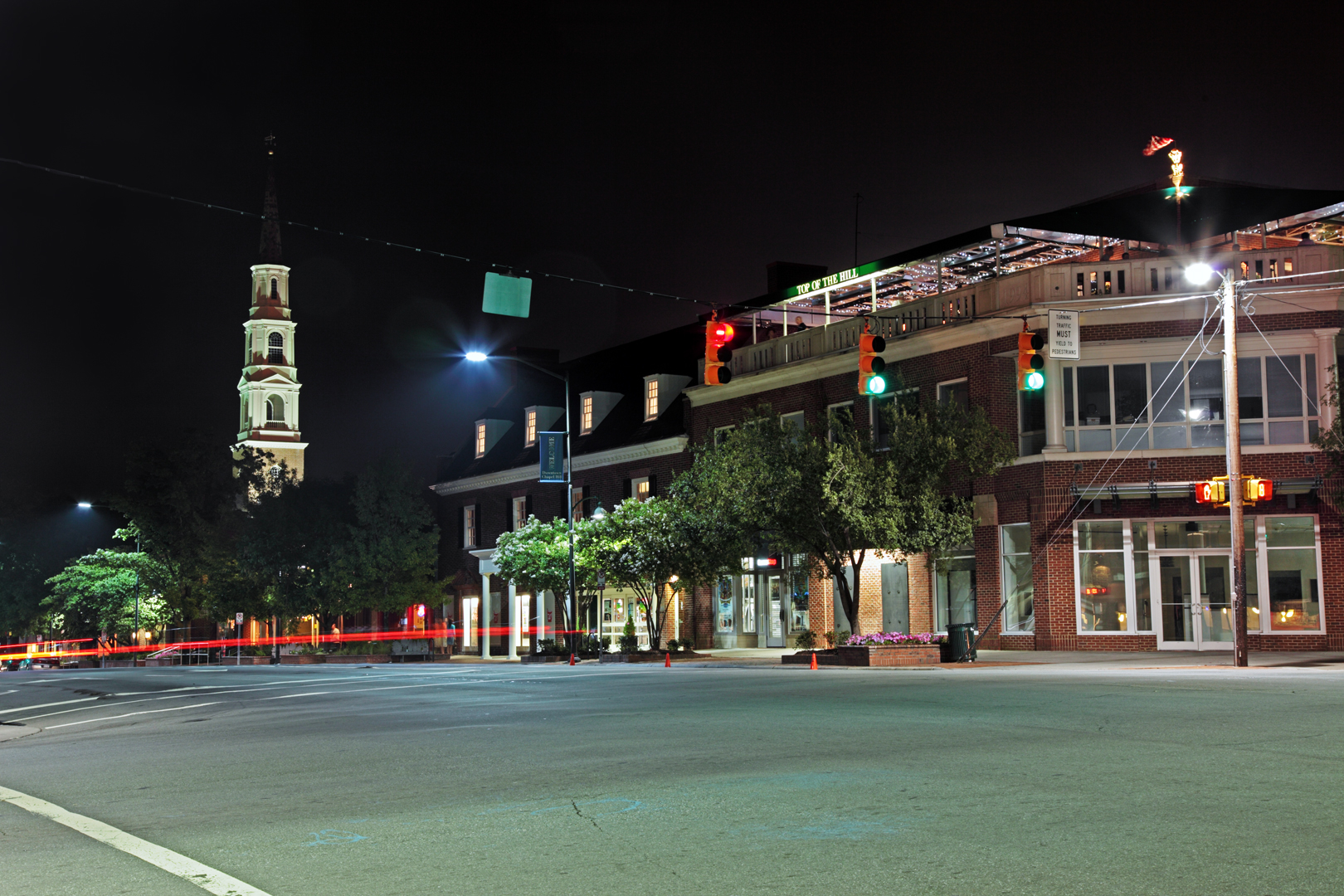 Intersection of Franklin Street and Columbia Street in Chapel Hill, NC. University United Methodist Church is visible on the left.